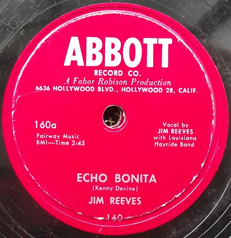 picture of 78rpm record label, Abbott 160 side a. Jim Reeves: Echo Bonita.